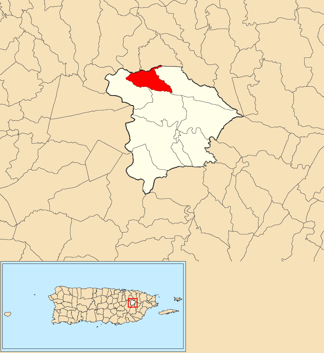 Quebrada Infierno, Gurabo, Puerto Rico locator map